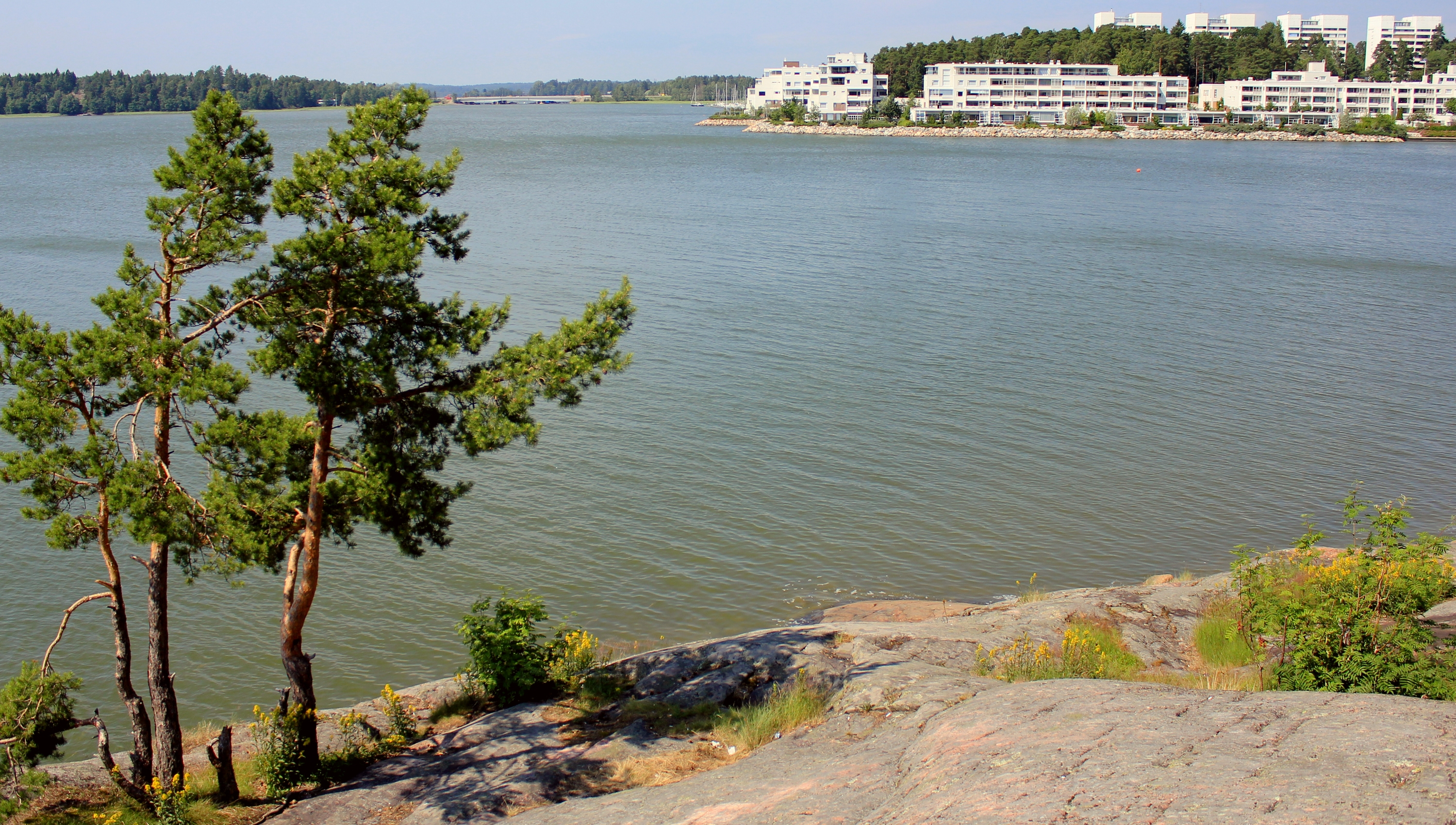 Coastal rocks by the Gulf of Finland in Kivenlahti, south-western part of Espoo, ca 20 kilometres west of Downtown Helsinki.